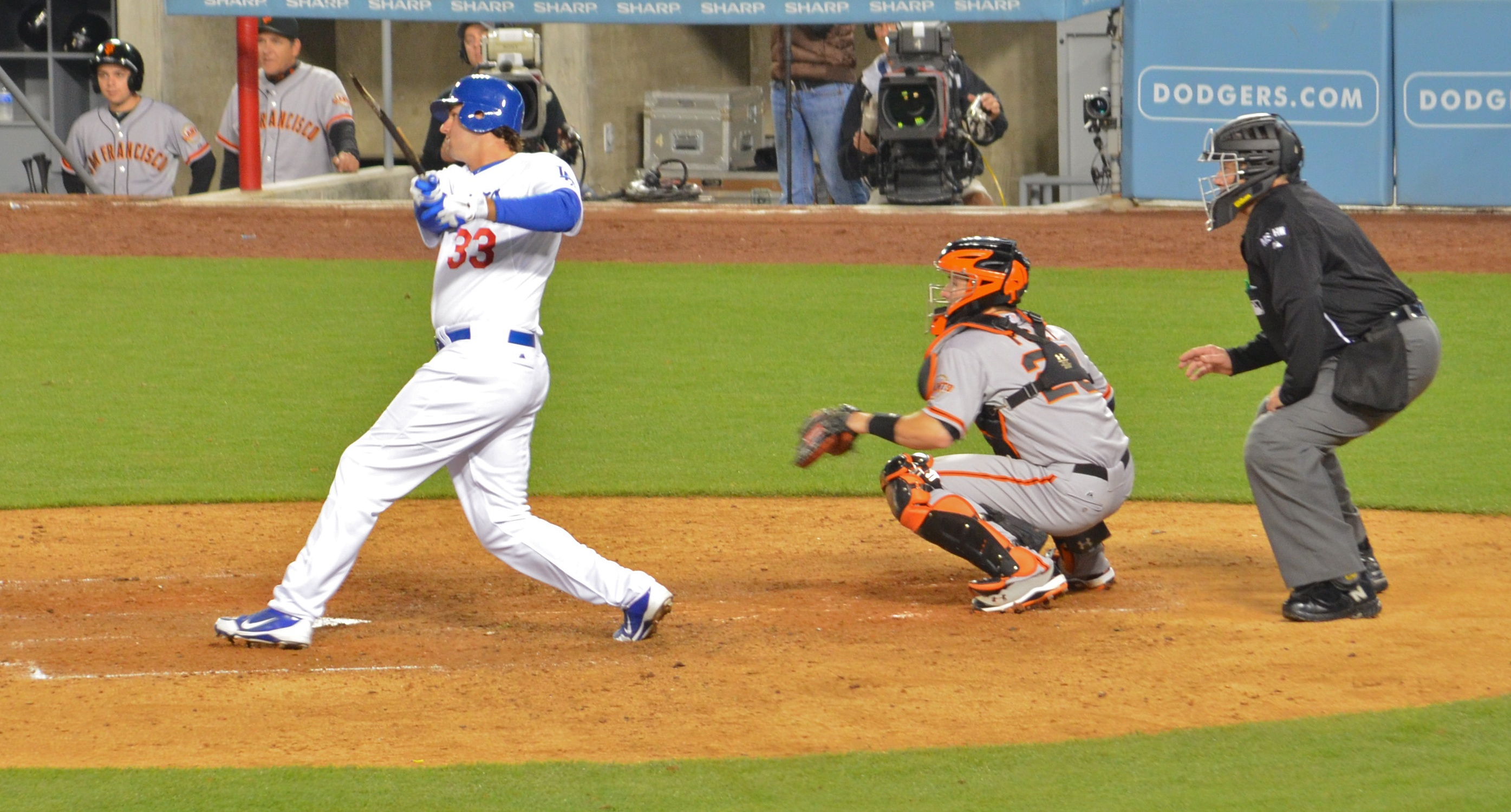 Scott Van Slyke in his MLB debut